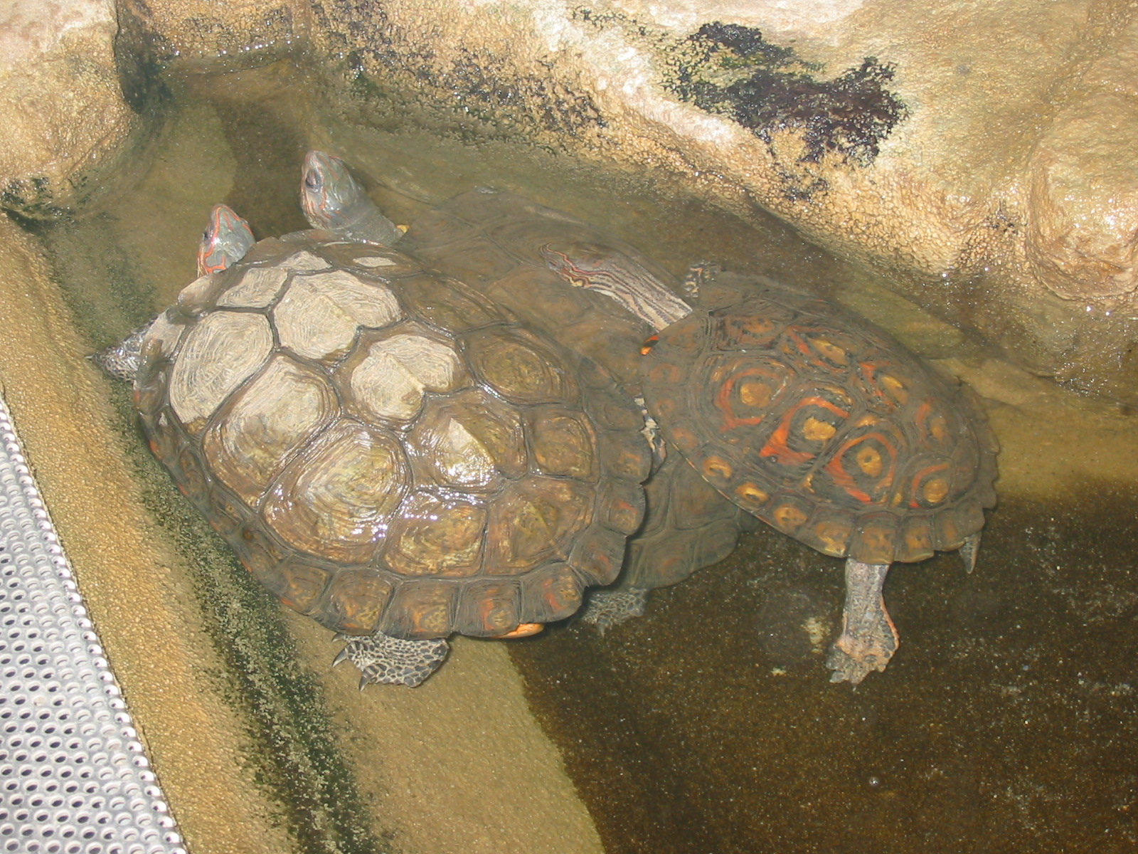 Turtle, Rhinoclemmys pulcherrima incisa (2 animals), Rhinoclemmys pulcherrima manni (1 animal , right side), Zoo Berlin, Germany